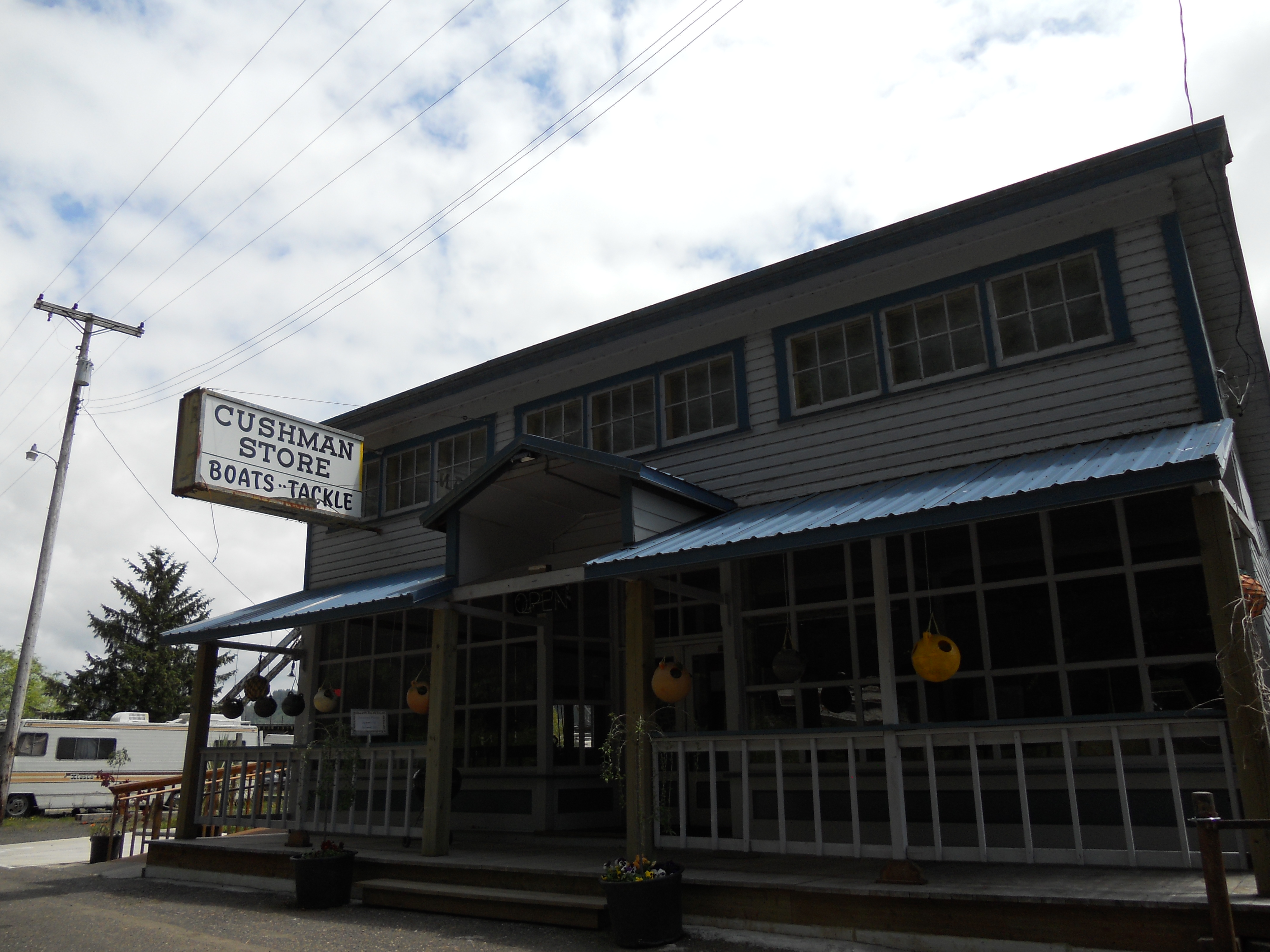 The Cushman Store in Cushman, Oregon, a community near the coastal city of Florence in Lane County